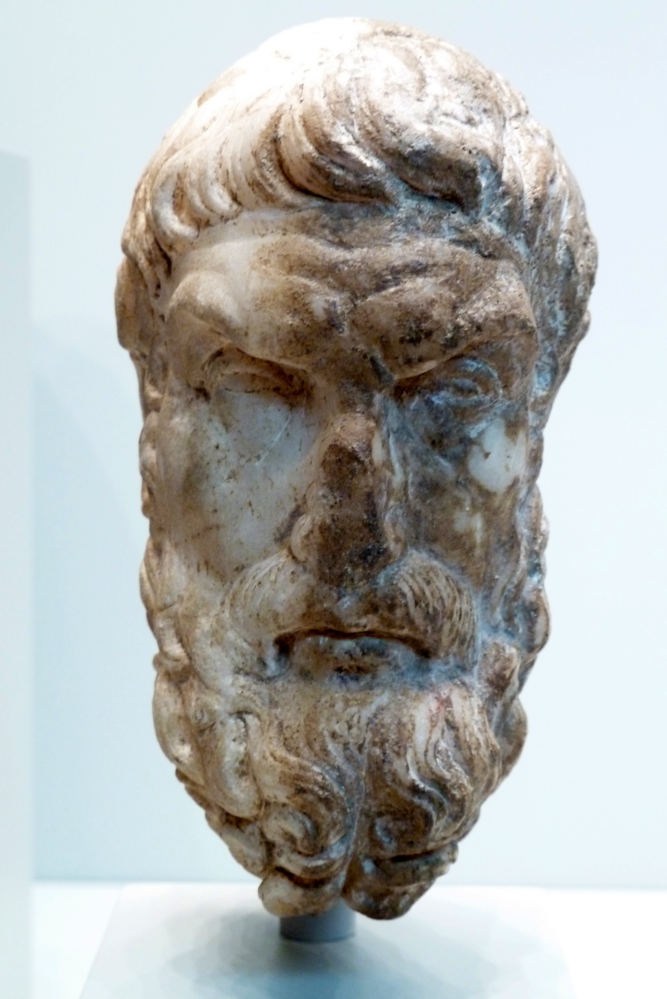 Head of Epikouros (Roman, AD 100-120) - Epikouros (341-270 BC) was founder of the Epicurean philosophy that pleasure (emotional tranquility and absence of pain) was the greatest good.